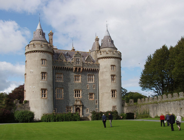 Killyleagh Castle Photo taken as we approached the castle for a guided tour. The castle is not normally open to the public, but there are some group tours, and the castle is available for weddings and some other special occasions. It has been occupied by the Hamilton family since 1606, and has been changed extensively over the centuries.